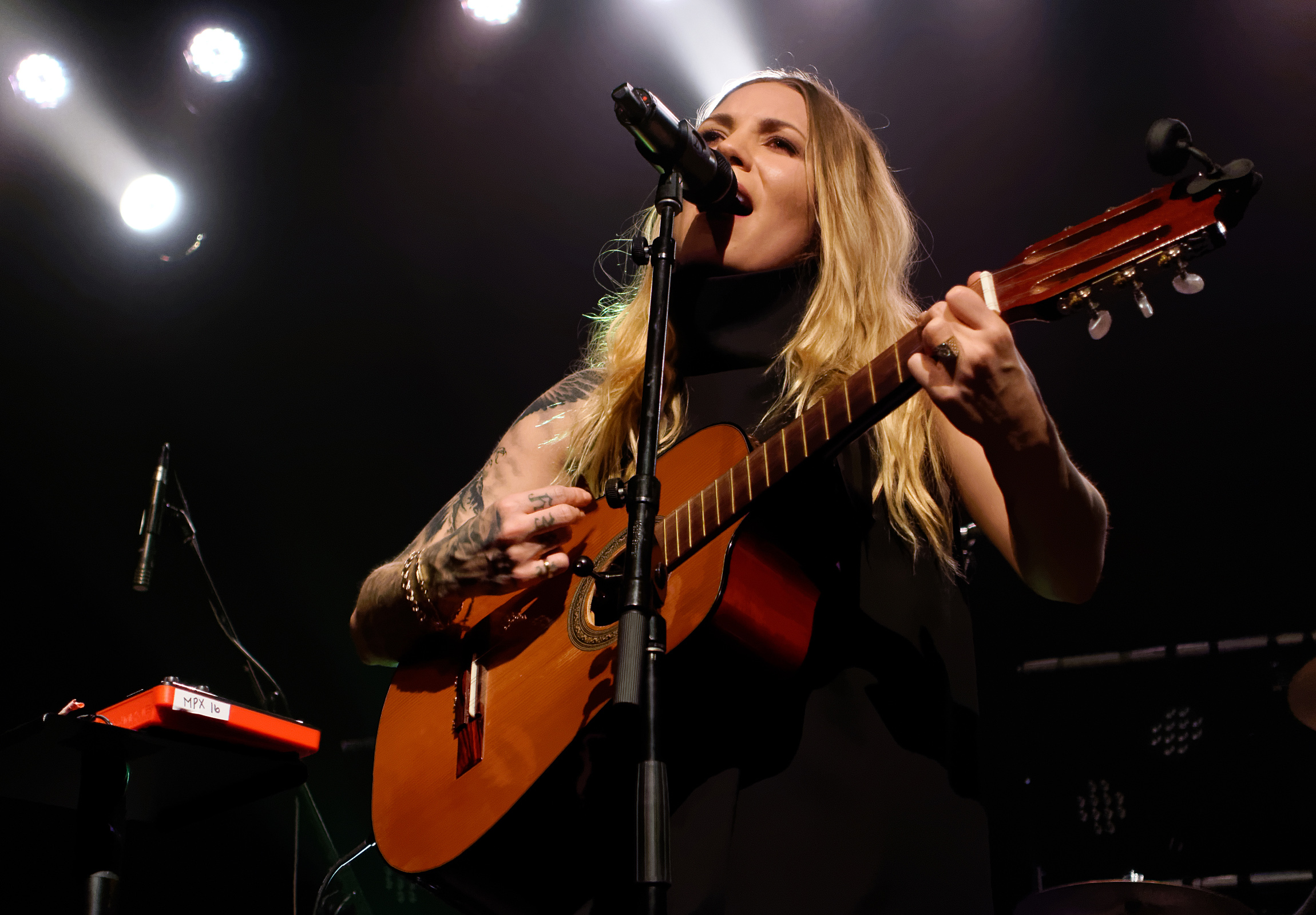 Skylar Grey performing live at The Fonda Theatre in Los Angeles, California on Saturday November 14th, 2015. Skylar opened for X Ambassadors.